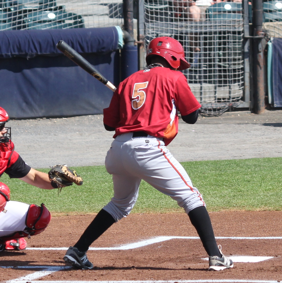 4/24/13 Gift Ngoepe at bat.